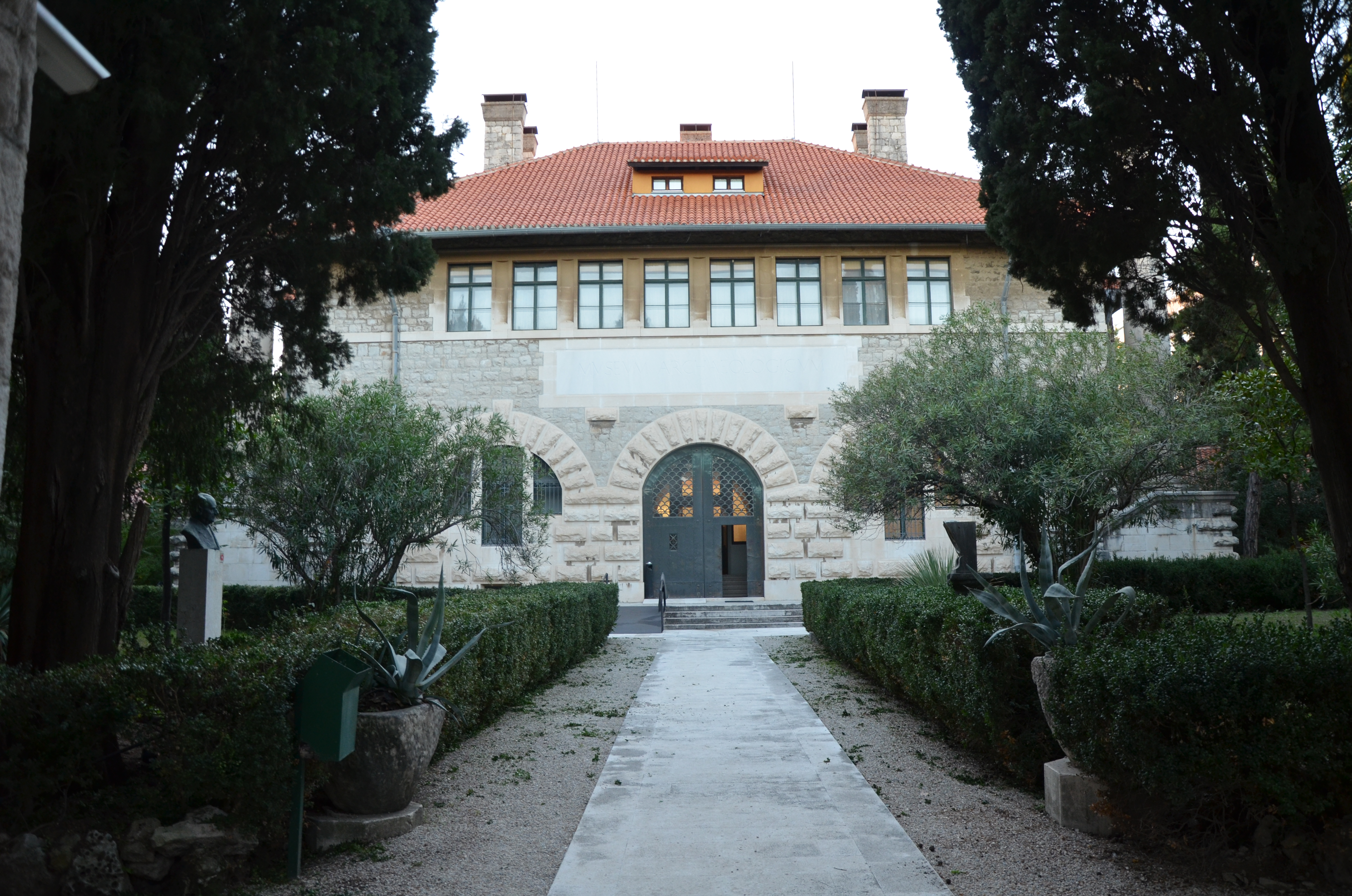 Split Archaeological Museum